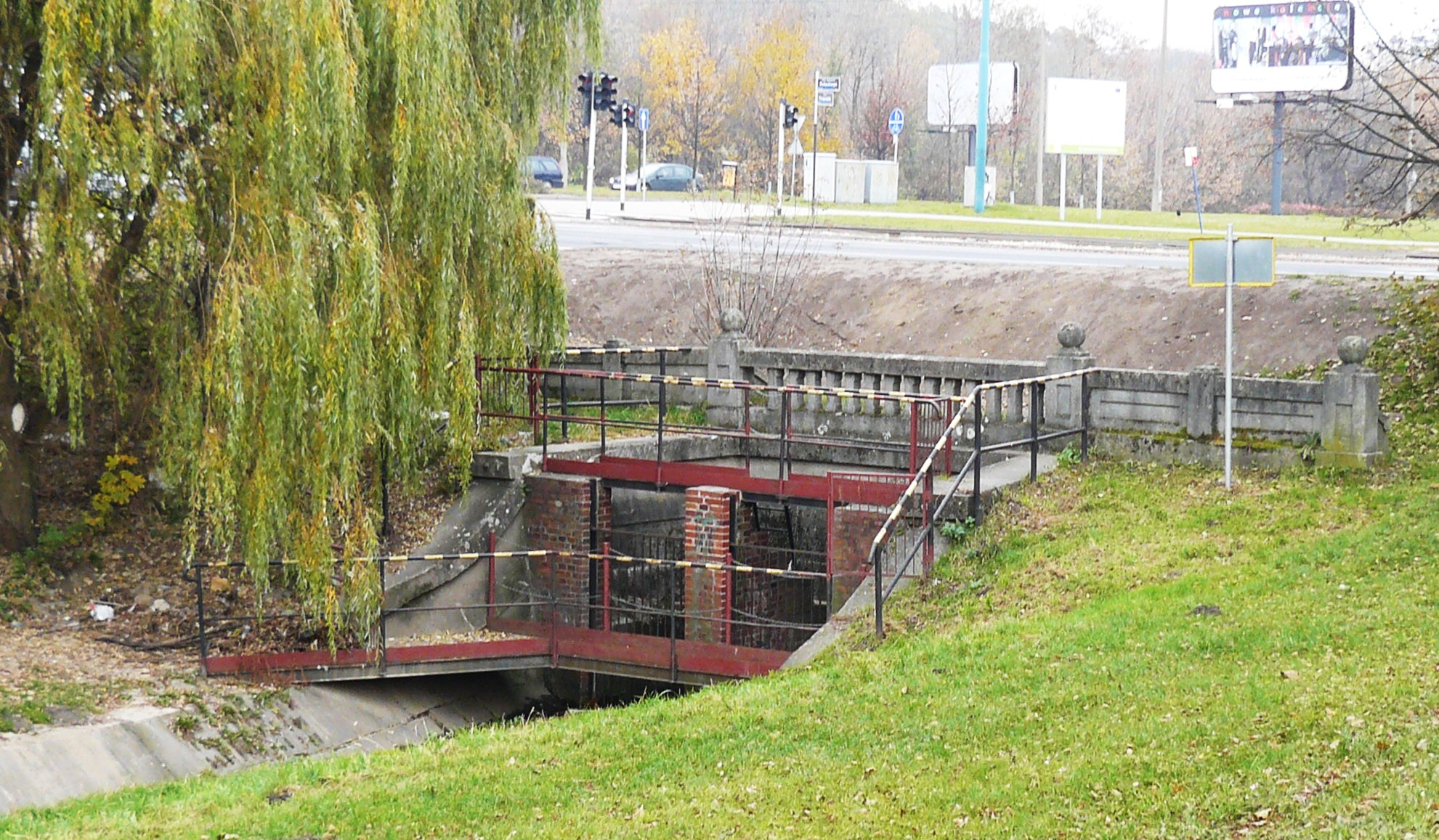 Bogdanka River, Poznan - Pulaskiego Street.